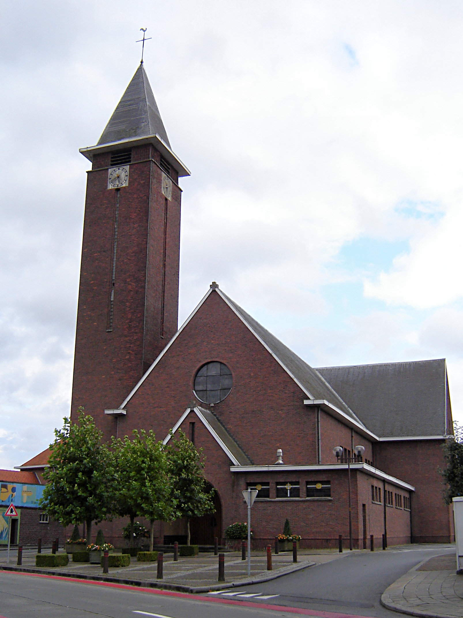 Church of Saint Thérèse of Lisieux in Heirweg. Heirweg, Anzegem, West Flanders, Belgium